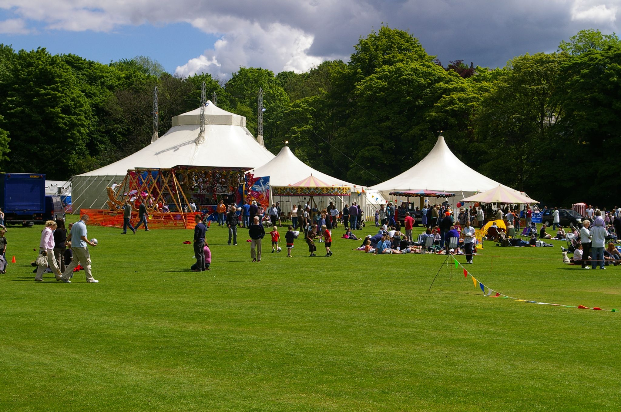 Tents at the 2005 Bollington Festival in Cheshire